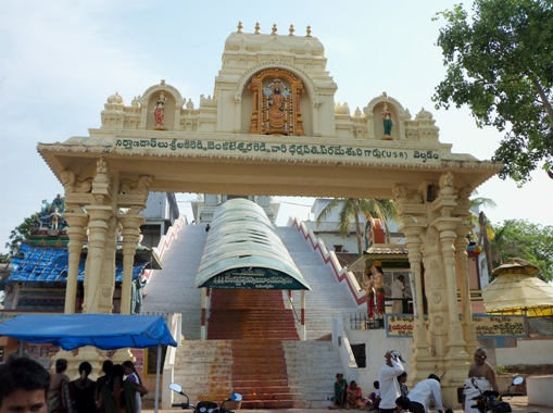 Sri Venkateshwara Swamy Temple in Jamalapuram, Telangana.